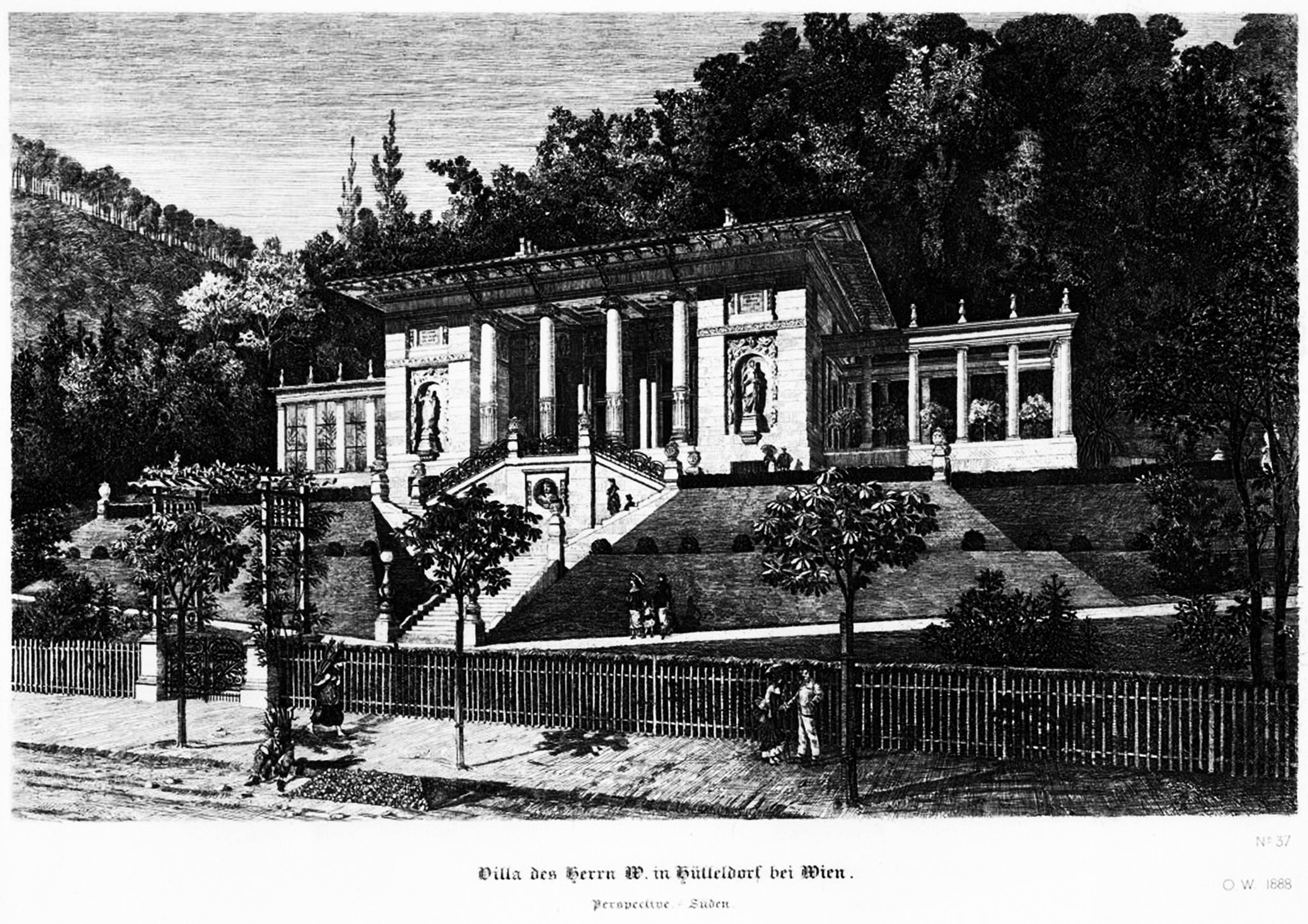 Villa Wagner I (project)